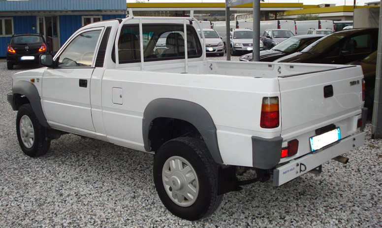 Tata TL pickup